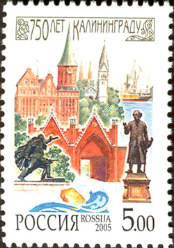 Stamps of Russia. The 750th anniversary of Kaliningrad, 2005